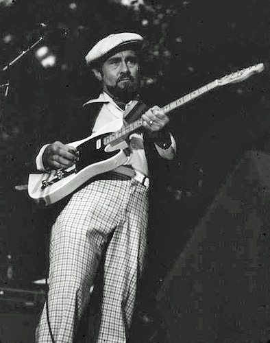 Roy Buchanan performing at the Pinecrest Country Club in Shelton, CT. (photo correct reversed L-R)